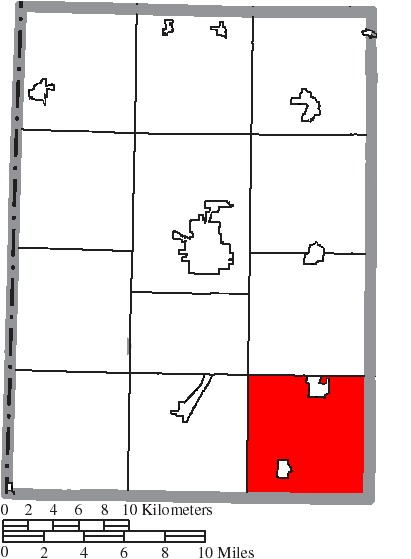 Map of the municipal and township boundaries of Preble County, Ohio, United States, as of the 2000 census, with the location of Gratis Township highlighted. Township borders are shown only in unincorporated areas in order to differentiate incorporated and unincorporated areas more clearly.